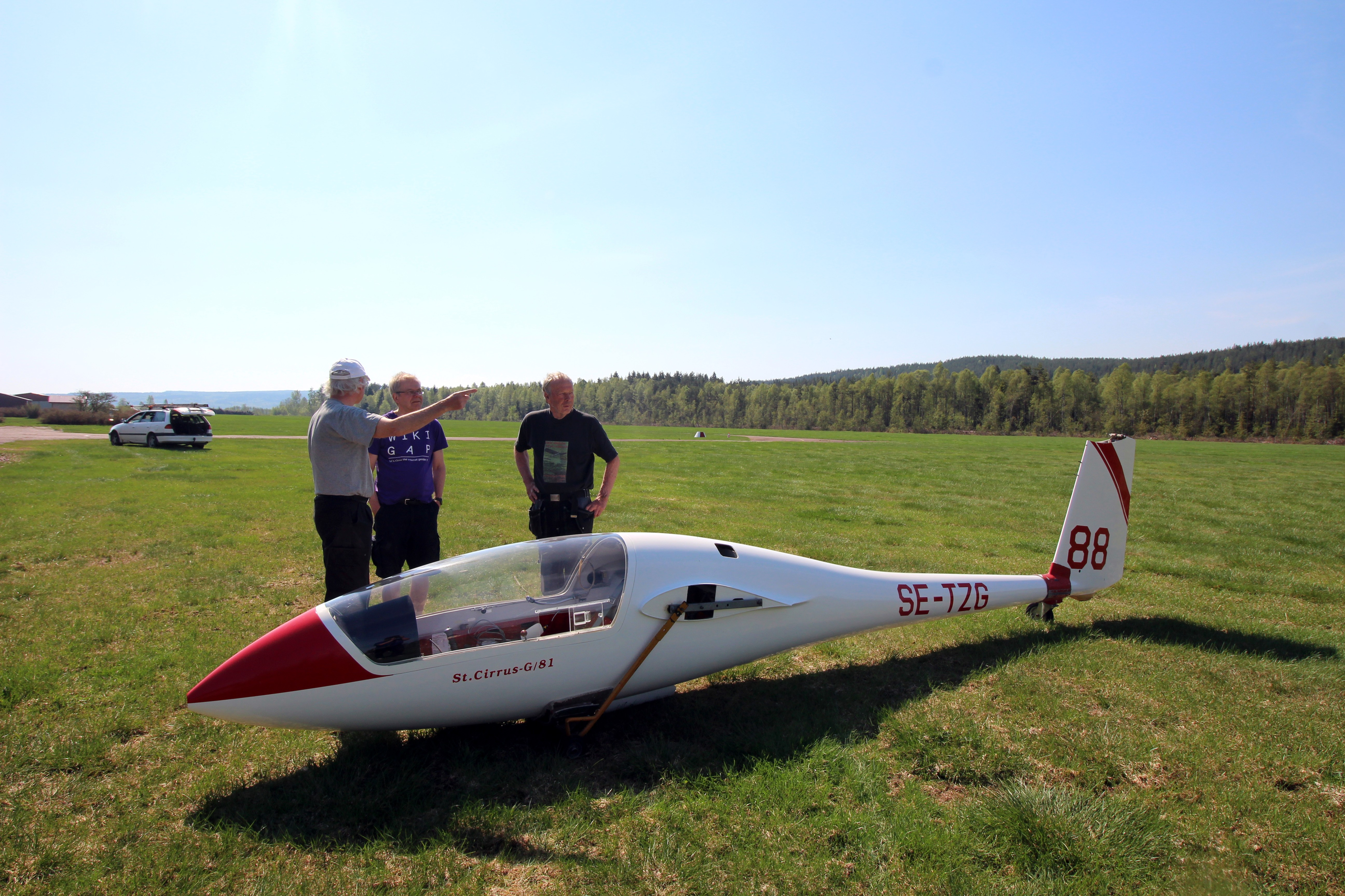 Hobby aviators at Siljan Airpark, Leksand